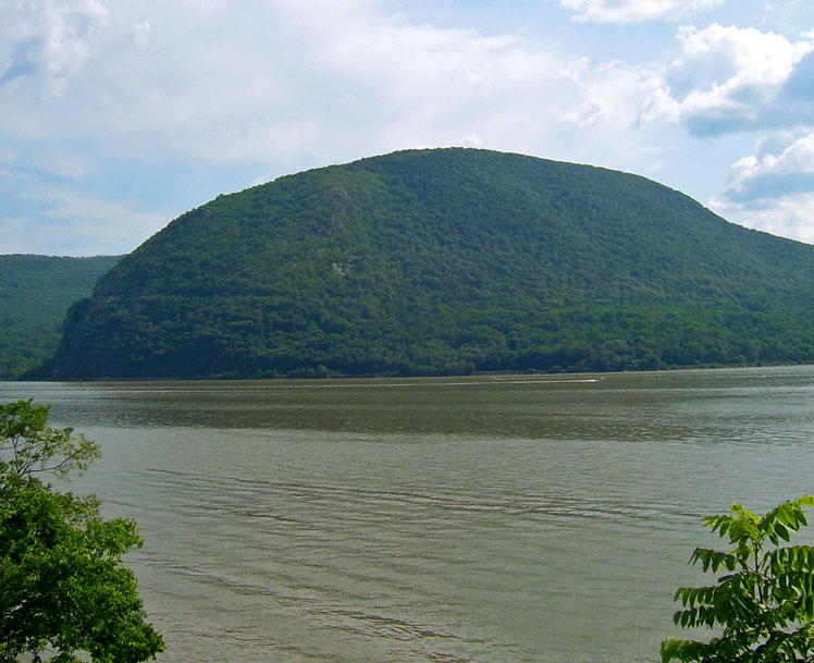 Photographed by Daniel Case from the overpass at the Breakneck Ridge Metro-North flag stop 2006-07-08